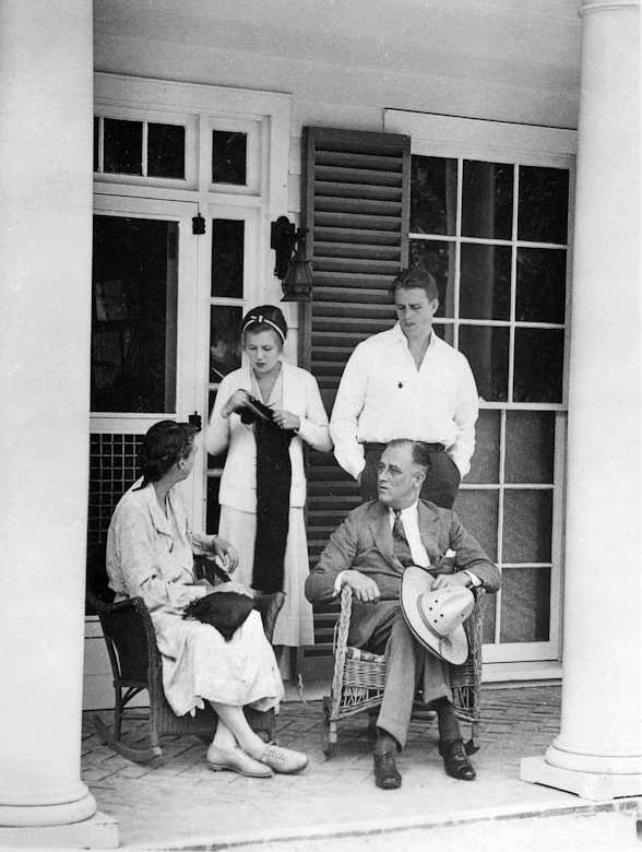 Photograph of Franklin D. Roosevelt, Eleanor Roosevelt, Elliot Roosevelt, and Elizabeth Donner (Mrs. Elliot Roosevelt) on the porch of the Little White House in Warm Springs, Georgia.